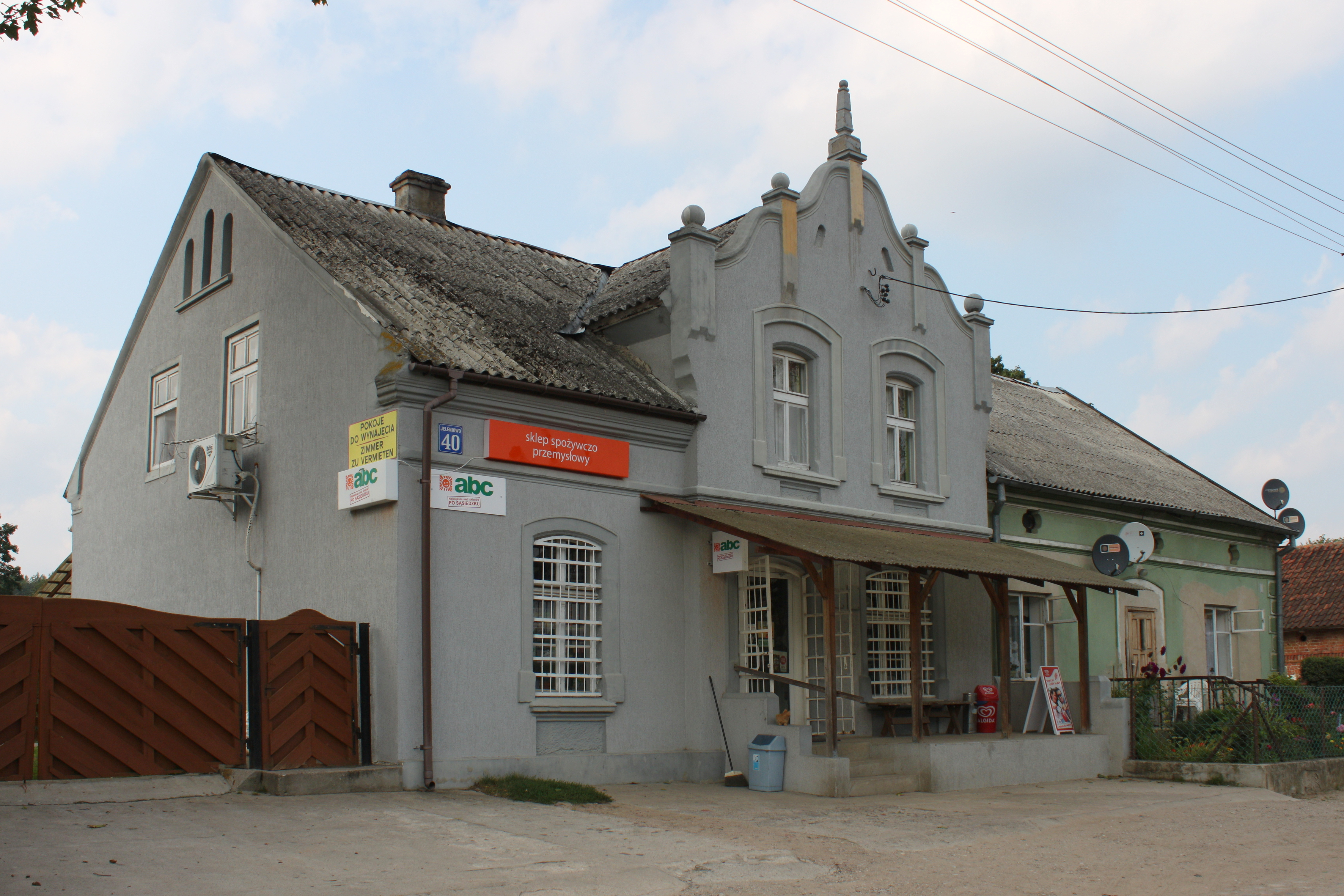 Building in Jeleniowo.